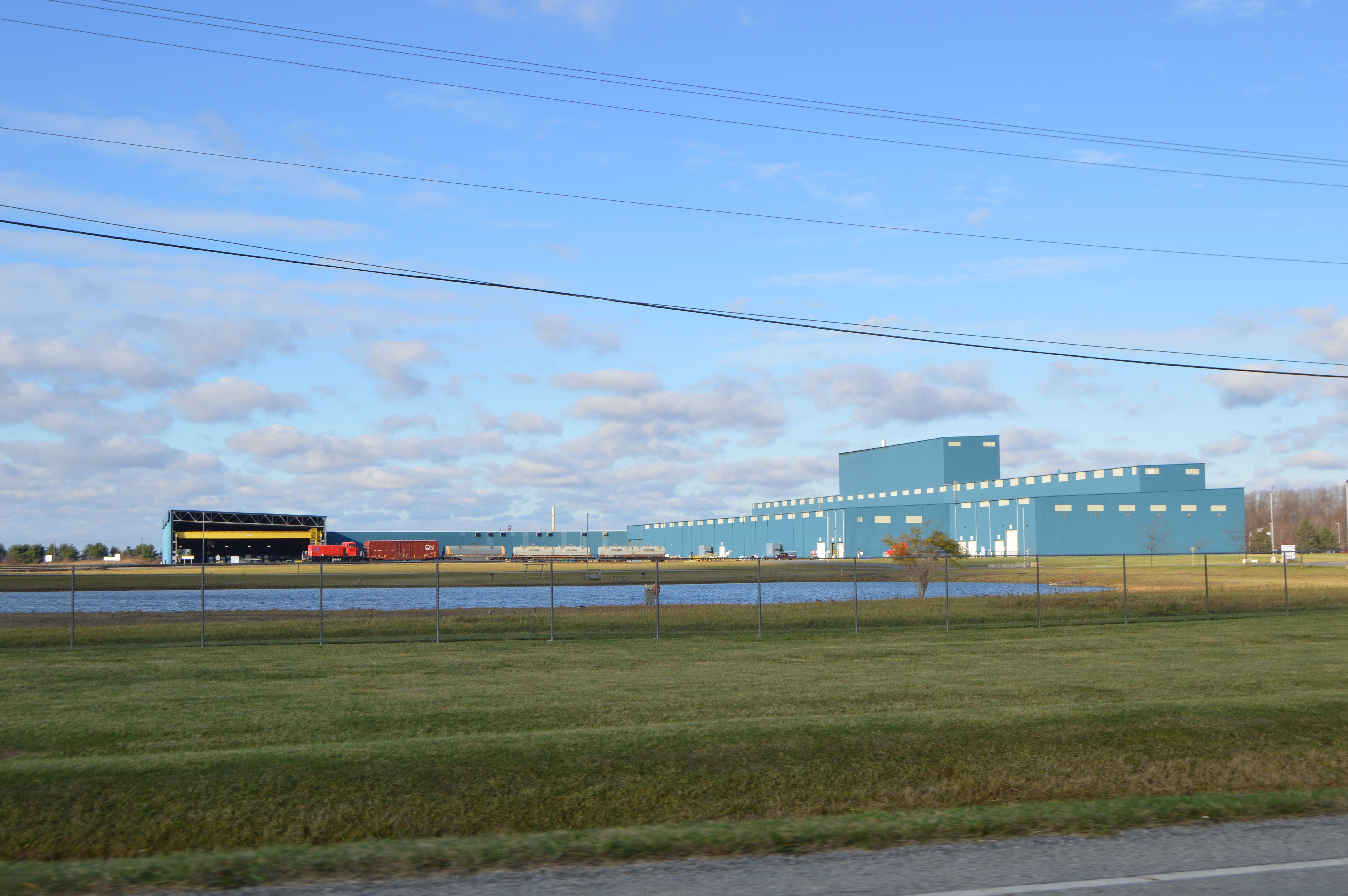 Looking westward from Road 10 toward a Worthington Industries steel processing plant located southwest of Delta in York Township, Fulton County, Ohio, United States.